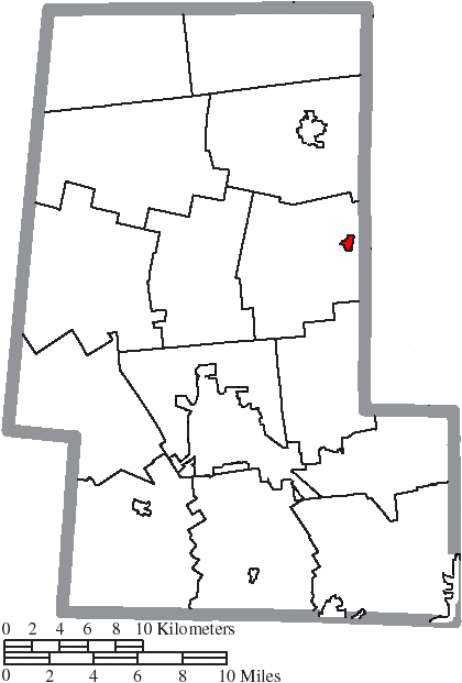 Map of the municipal and township boundaries of Union County, Ohio, United States, as of the 2000 census, with the location of the village of Magnetic Springs highlighted. Township borders are shown only in unincorporated areas in order to differentiate incorporated and unincorporated areas more clearly.